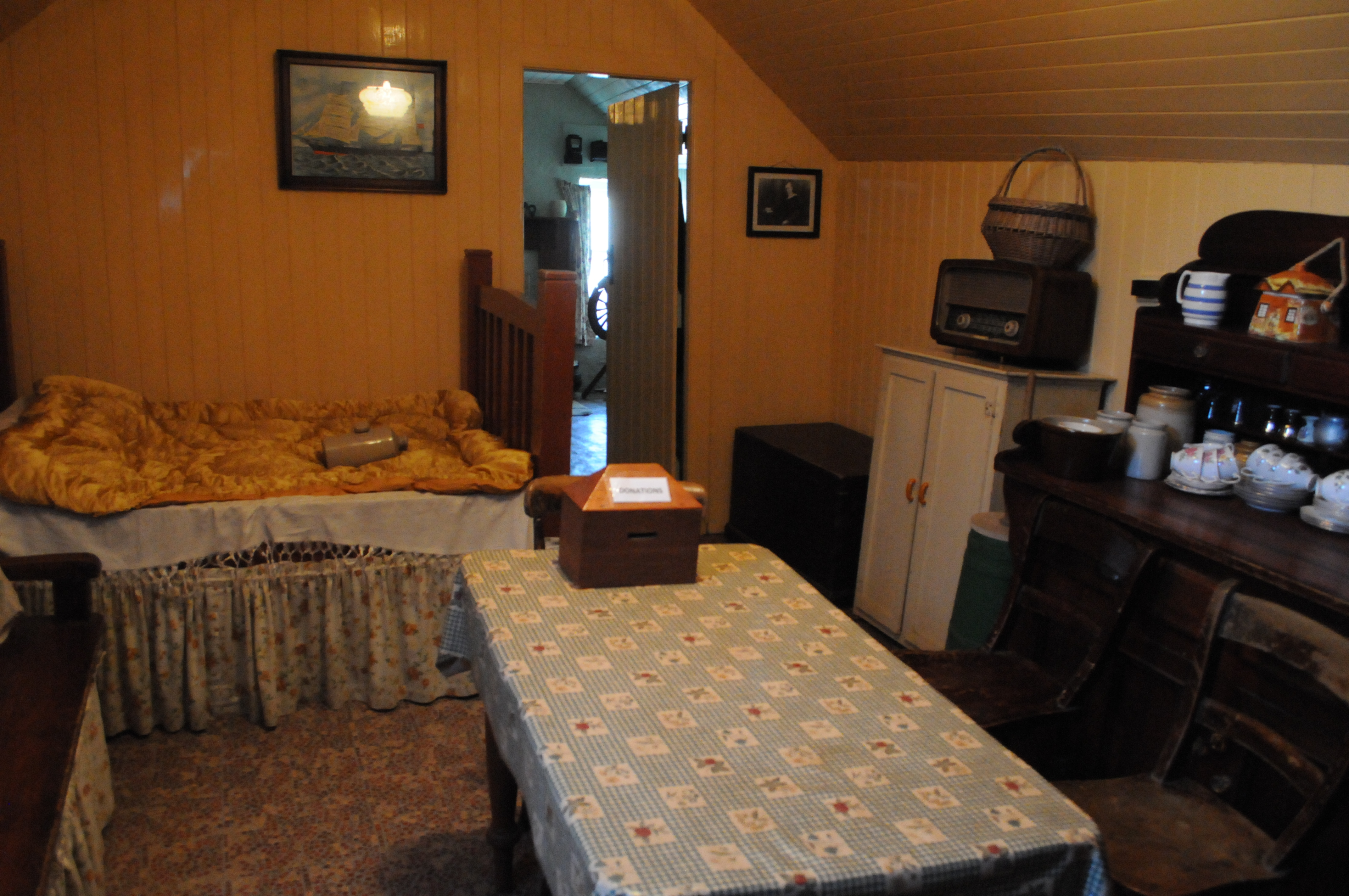 The Gearrannan Blackhouses inside the museum building